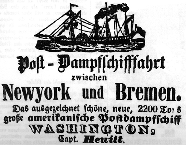 1848 German advertisement for the new transatlantic mail service between New York City and Bremerhaven with the “exceptionally beautiful, new, 2200 Tons large american mail-steamship Washington”. Anzeige aus dem Jahr 1848 für die neue transatlantische Postschifflinie zwischen New York und Bremerhaven mit dem „ausgezeichnet schönen, neuen, 2.200 Tonnen großen amerikanischen Postdampfschiff Washington“.